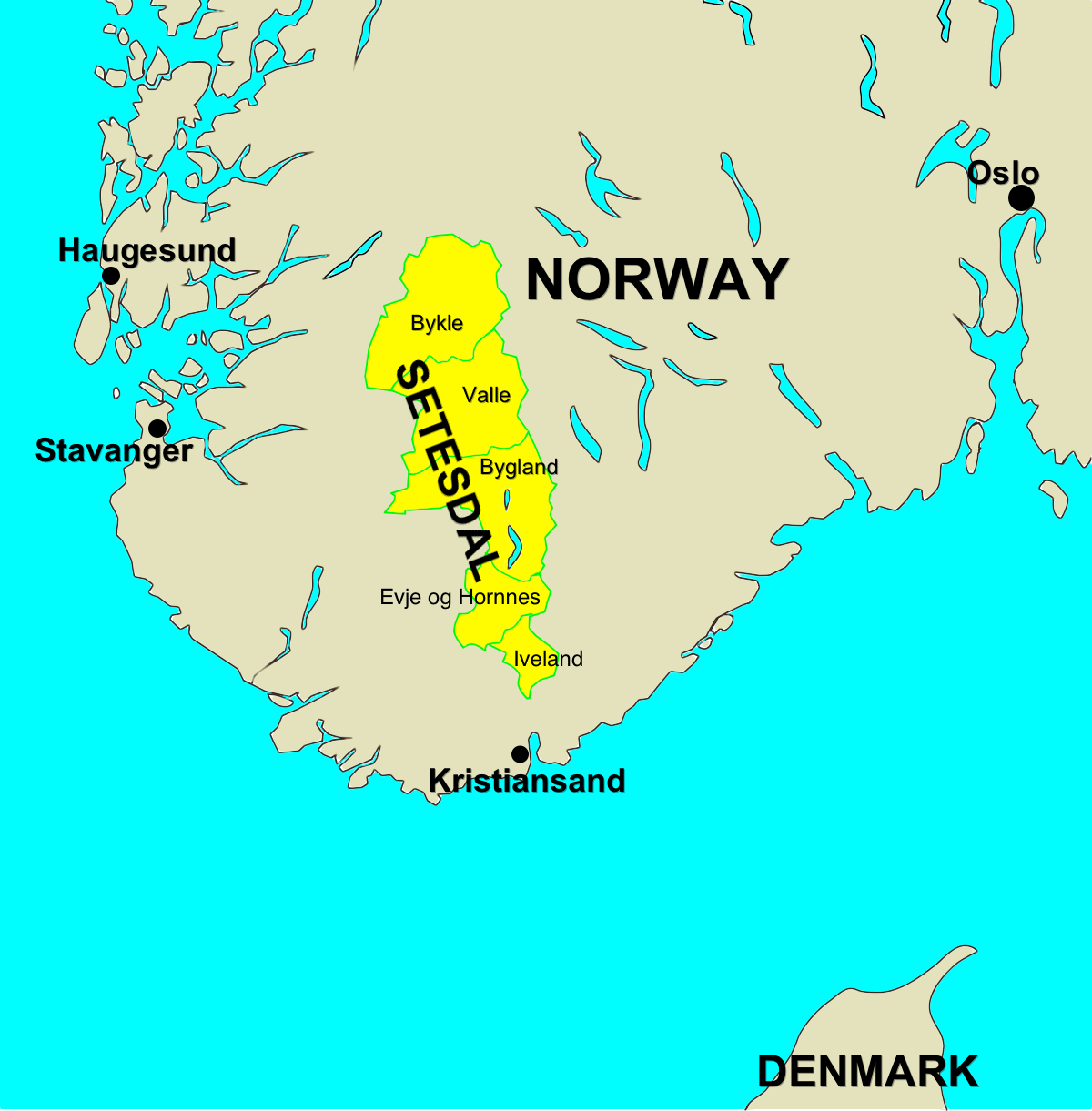 Map that shows the location of Setesdal in Norway